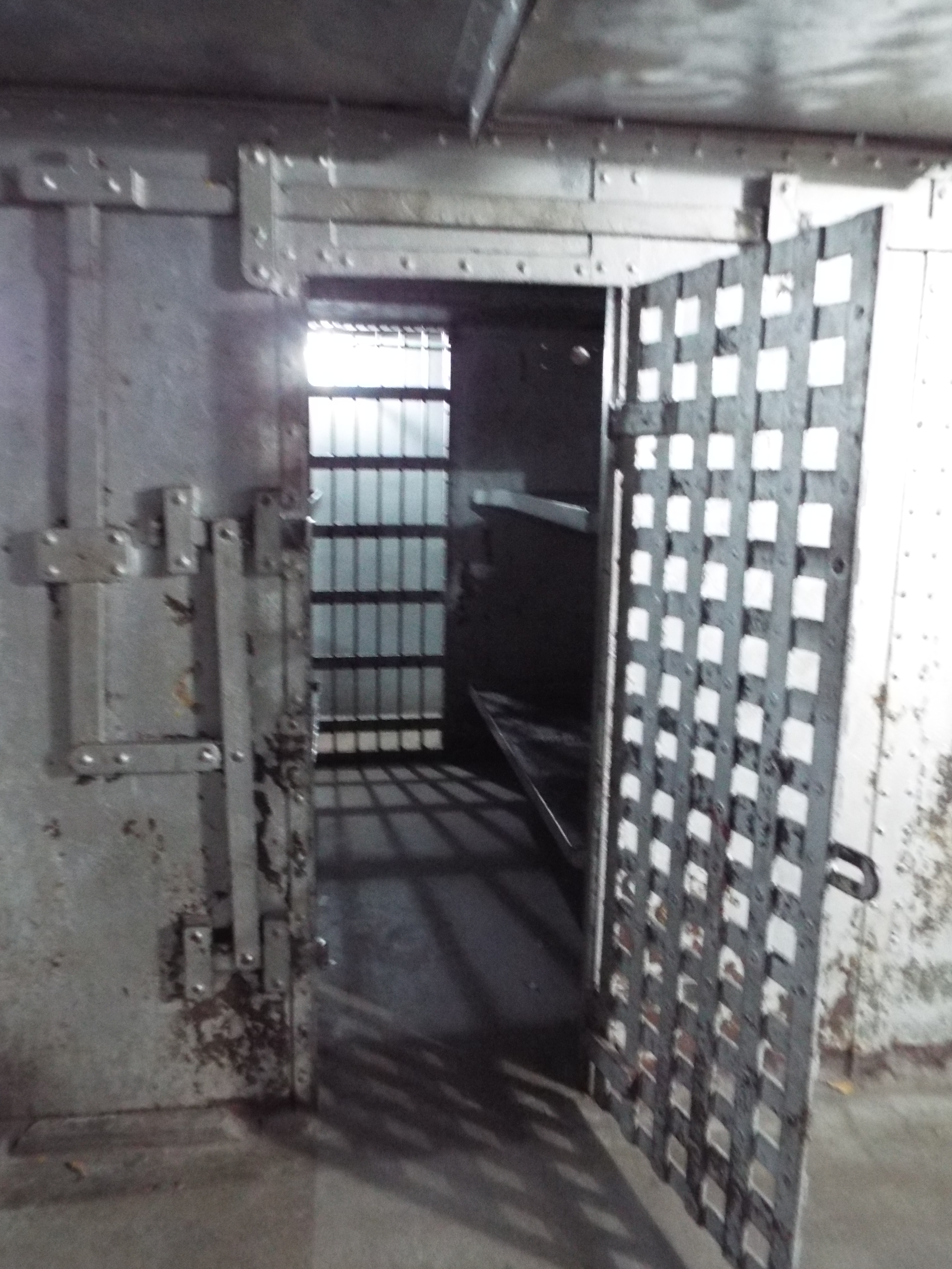 Original 1884 territorial jail cell of Mesa, Arizona. The museum was actually built where the city hall, jail and courthouse were once located. The museum kept the jail cells and has them on display.